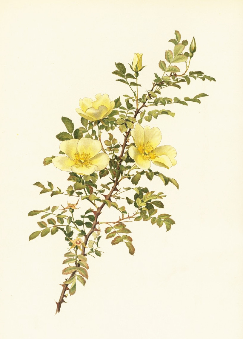 Rosa hugonis Hemsl. - Lithograph illustrating Rosa hugonis (syn Rosa Xanthina), from Ellen Willmott's The Genus Rosa, Part XIV, 1911, made after a watercolour by Alfred Parsons, RA